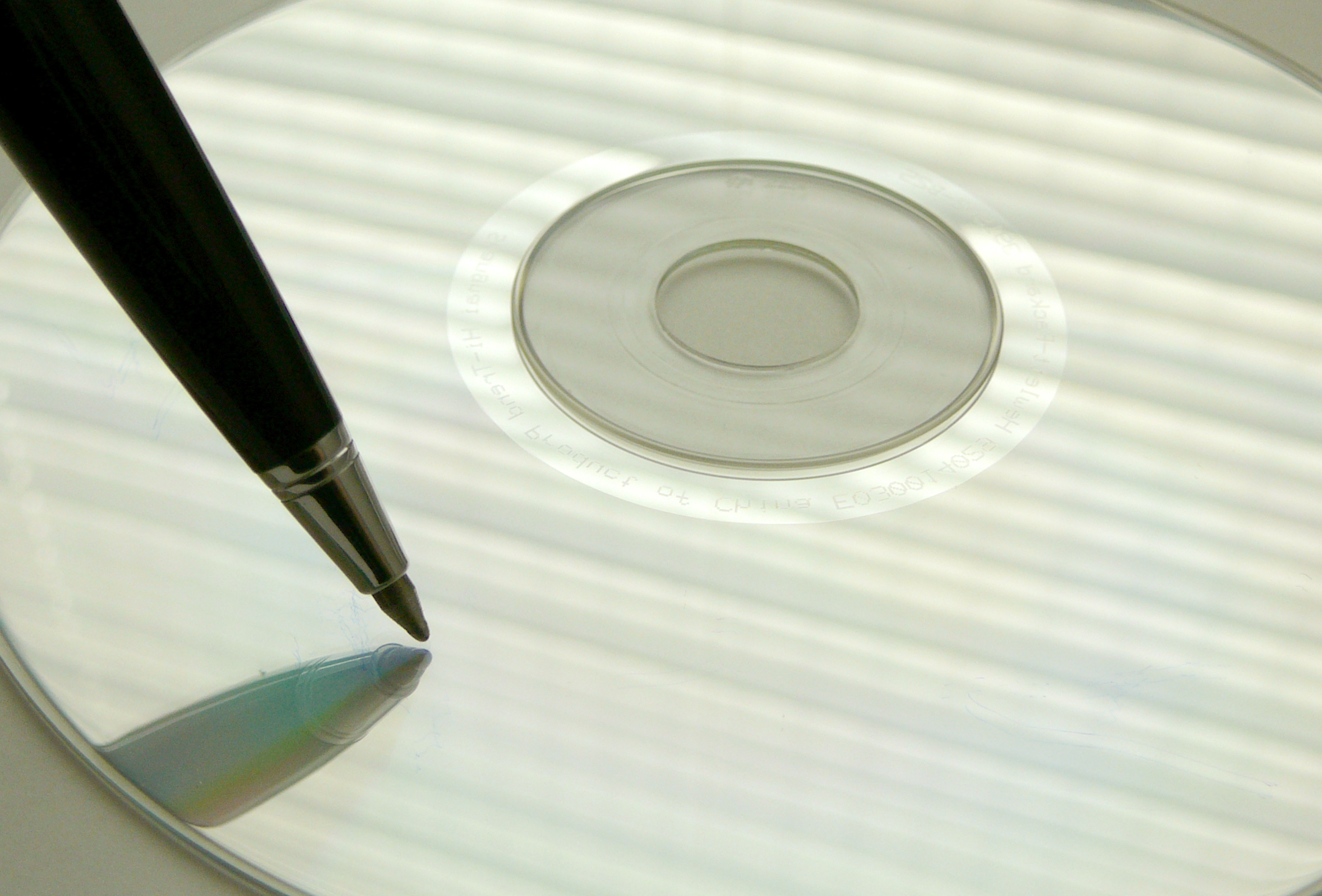 Compact disk and pen